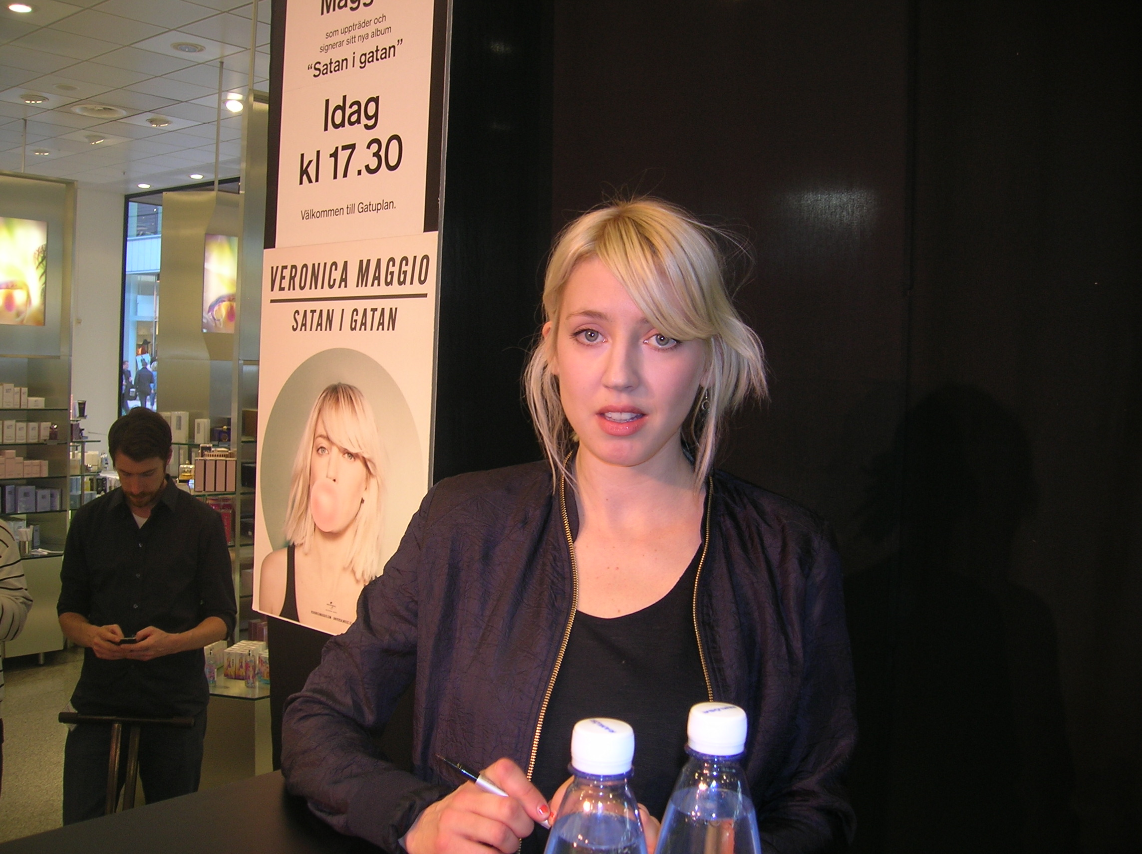 Swedish singer-songwriter Veronica Maggio. Photo taken at Åhléns department store in Stockholm, where she was singing and meeting her fans while releasing her third studio album Satan i Gatan